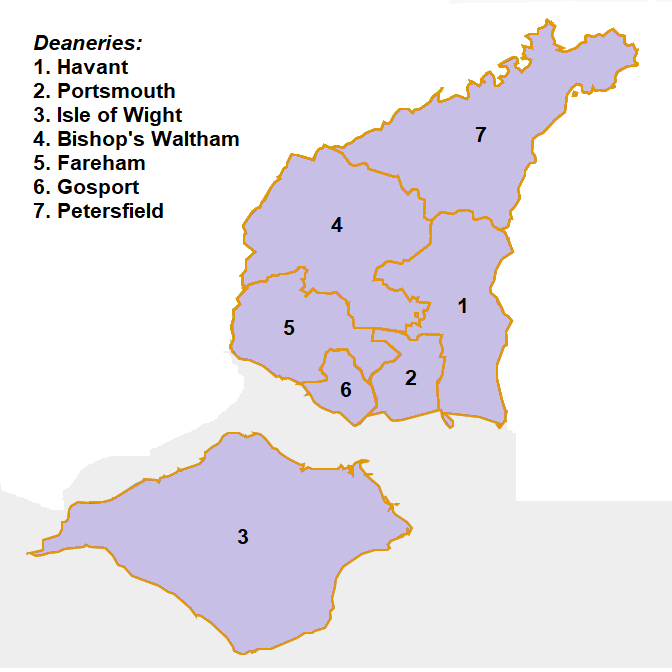 Own work from CoE data